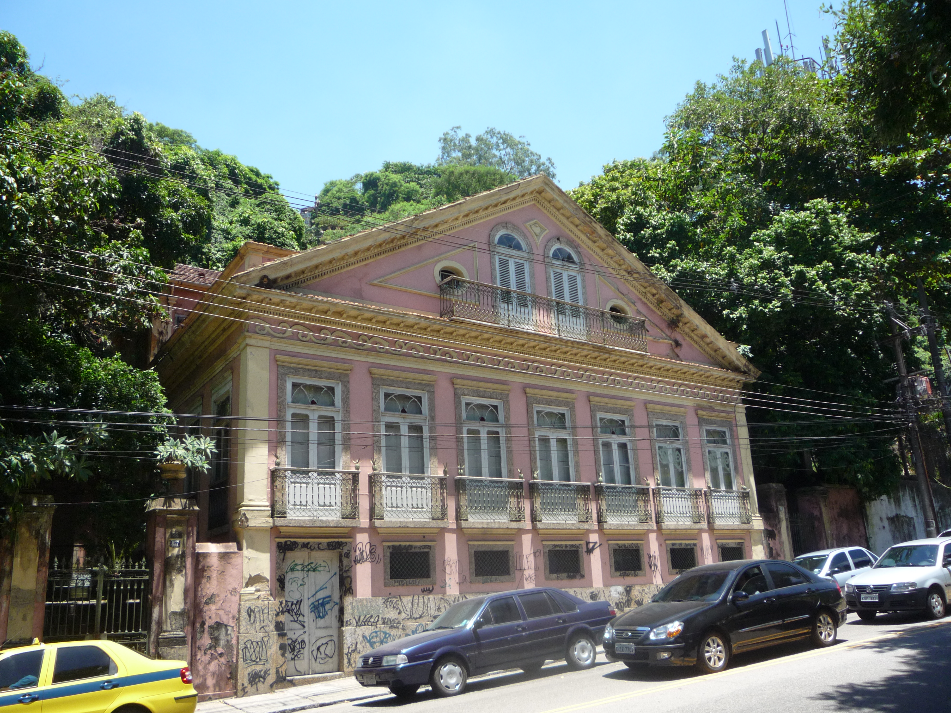 Neoclassical Solar dos Abacaxis (Pineapple Manor House) in Rio de Janeiro, Brazil